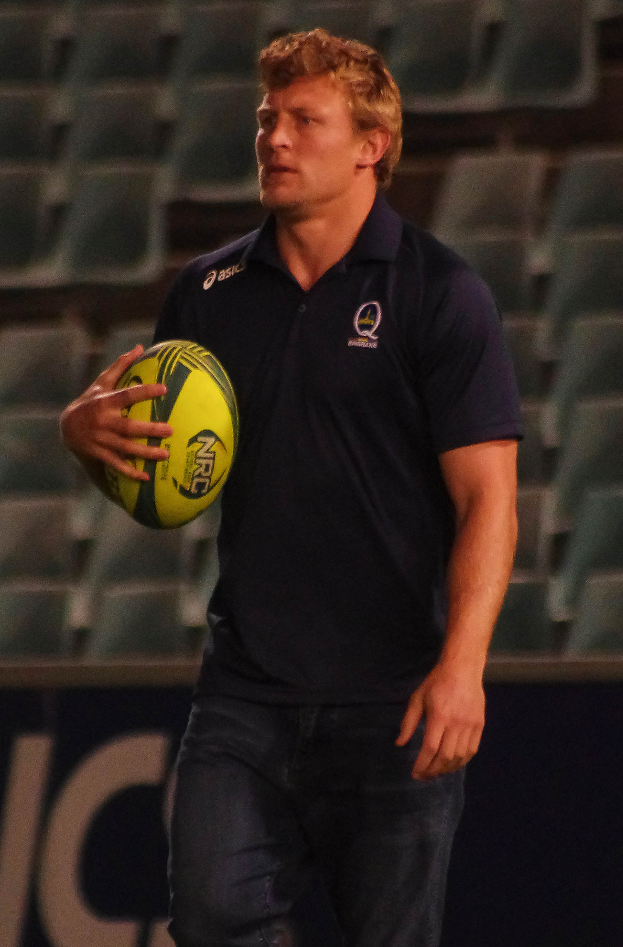 Australian international rugby union player Lachie Turner .